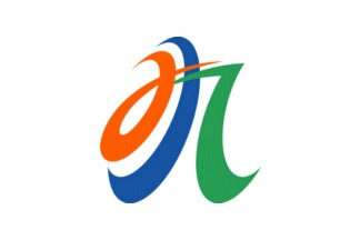 Flag of Minamikyushu Kagoshima